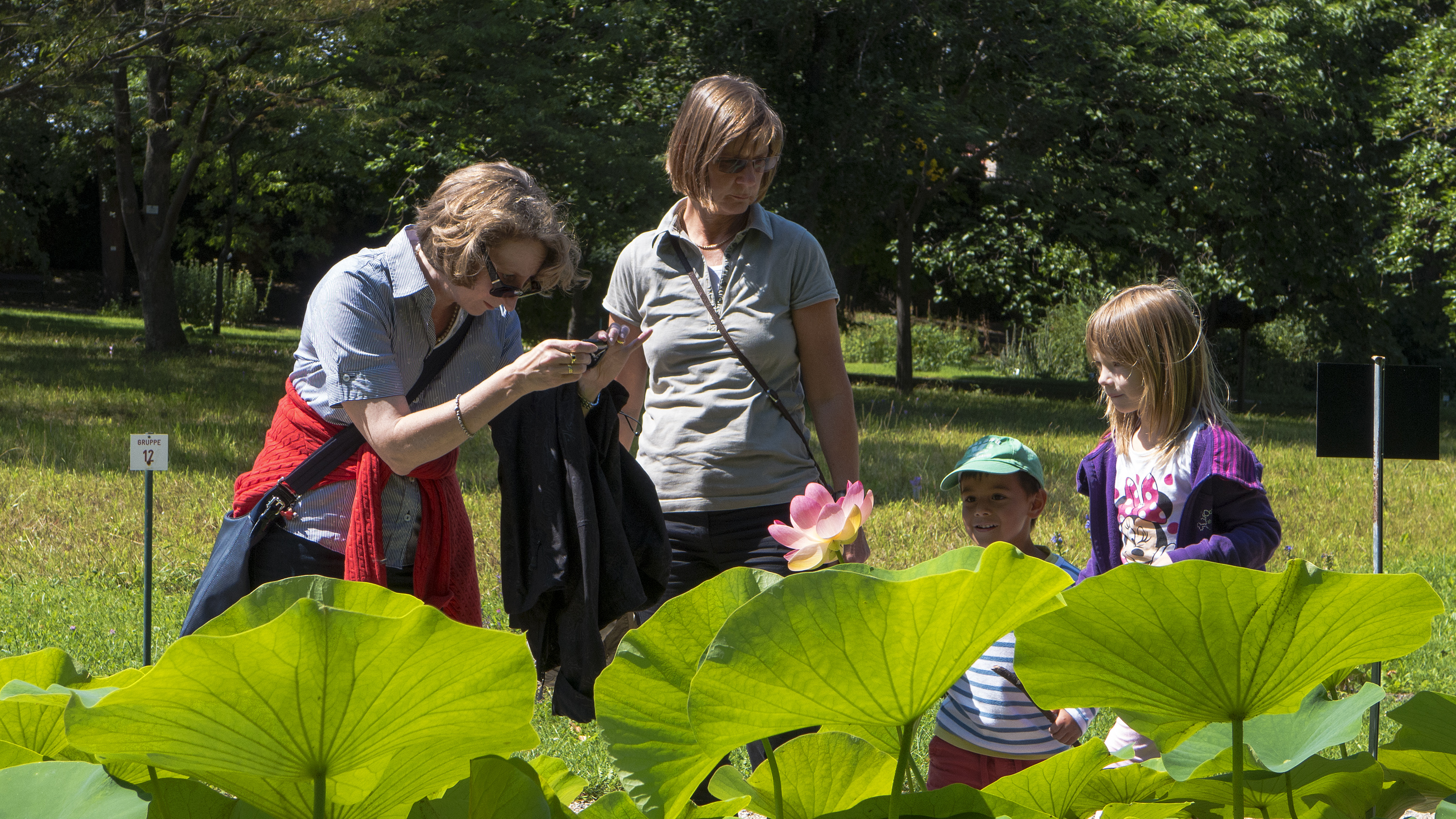 Botanical Garden of the University of Vienna in Vienna 3